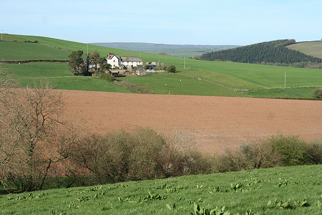 Queen’s Nympton: towards Little Frenchstone Looking north-north-east. Two small valleys intervene between the camera and the farm which is beyond the square